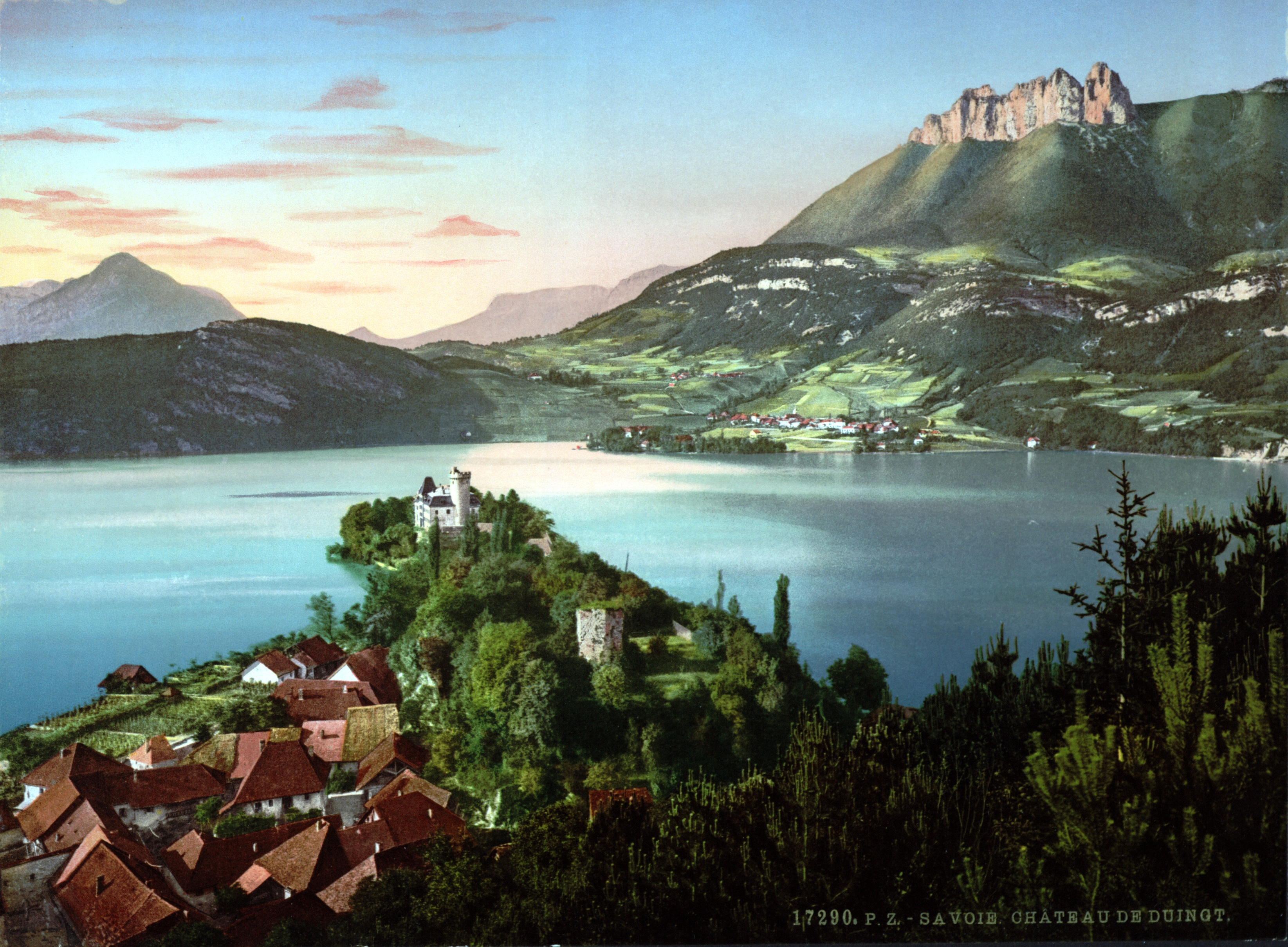 Duingt Castle, Haute-Savoie, France.